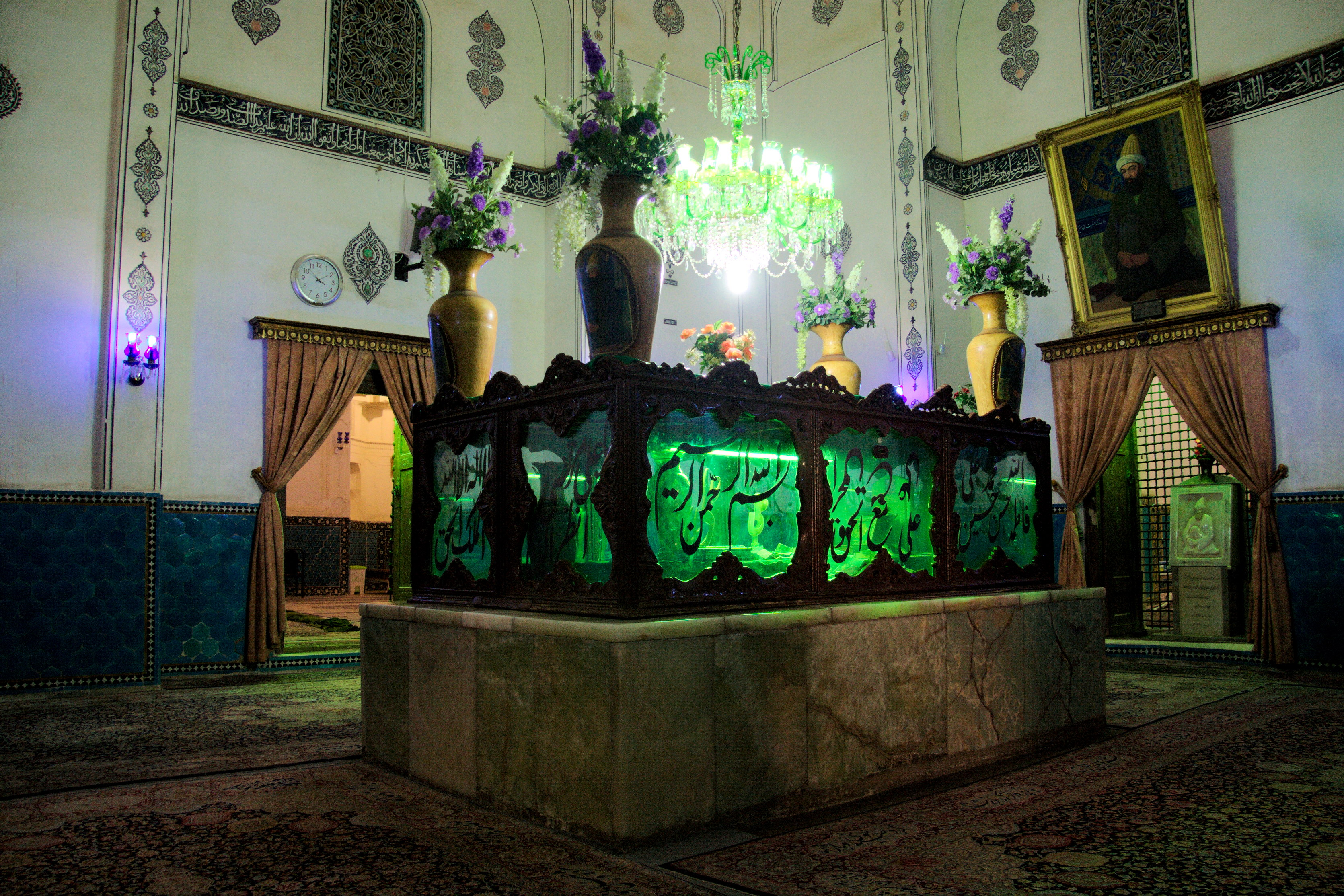 Tomb emulation inside the Mausoleum of Shah Nematollah Vali Shrine in Mahan, Kerman province, Iran